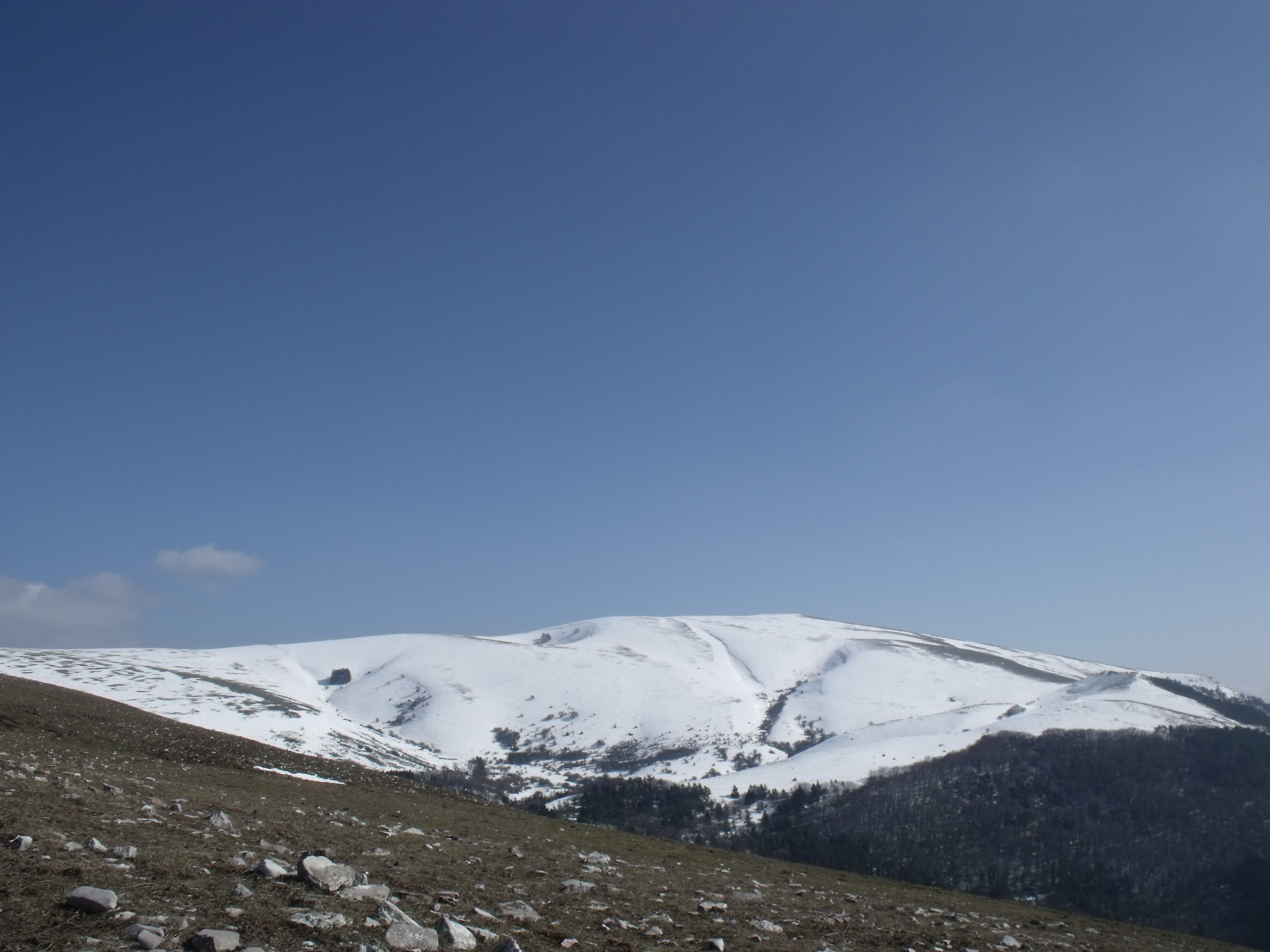 Mount Subasio (Monte Subasio) near Assisi, Province of Perugia, Umbria, Italy